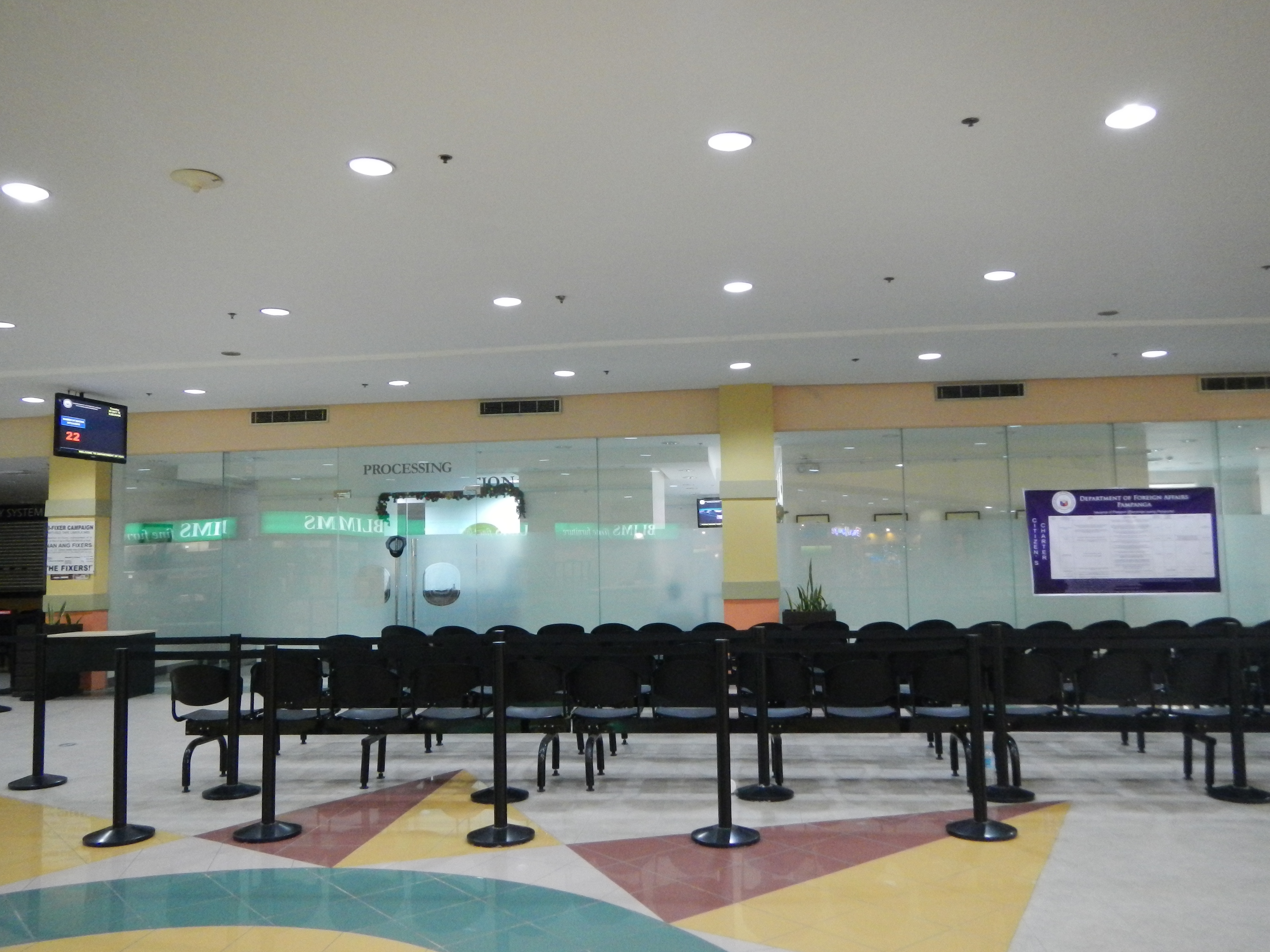 Department of Foreign Affairs (Philippines)[1][2] San Fernando, Pampanga[3]